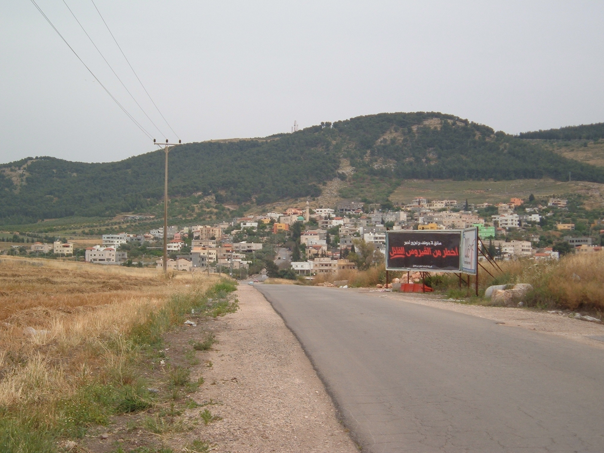 Kafr-Nin כפר נין